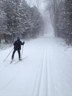 Nordic Skiing at Horseshoe Resort in Ontario